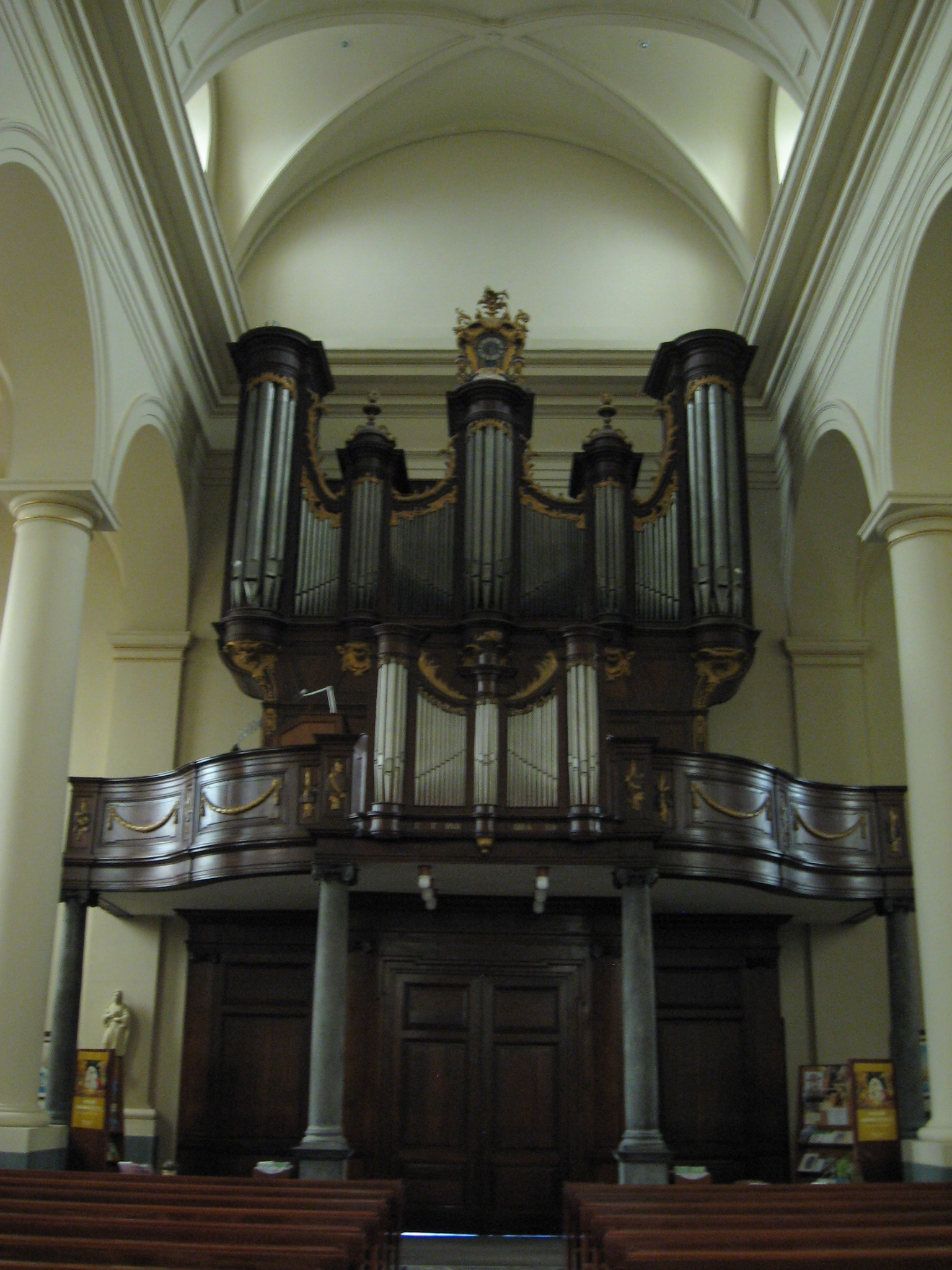 Church of Saint Quentin in Zonhoven, Limburg, Belgium. Pipe organ built by Robustelly.